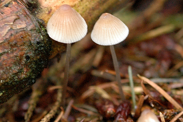 Mycena spec. from Commanster, Belgium. The determination of the species shown in this picture has been verified.